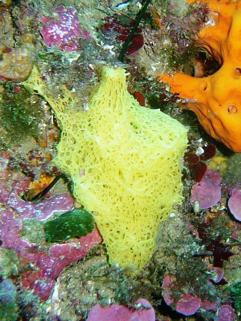 Clathrina clathrus (Sicily, Tirrenian Sea)